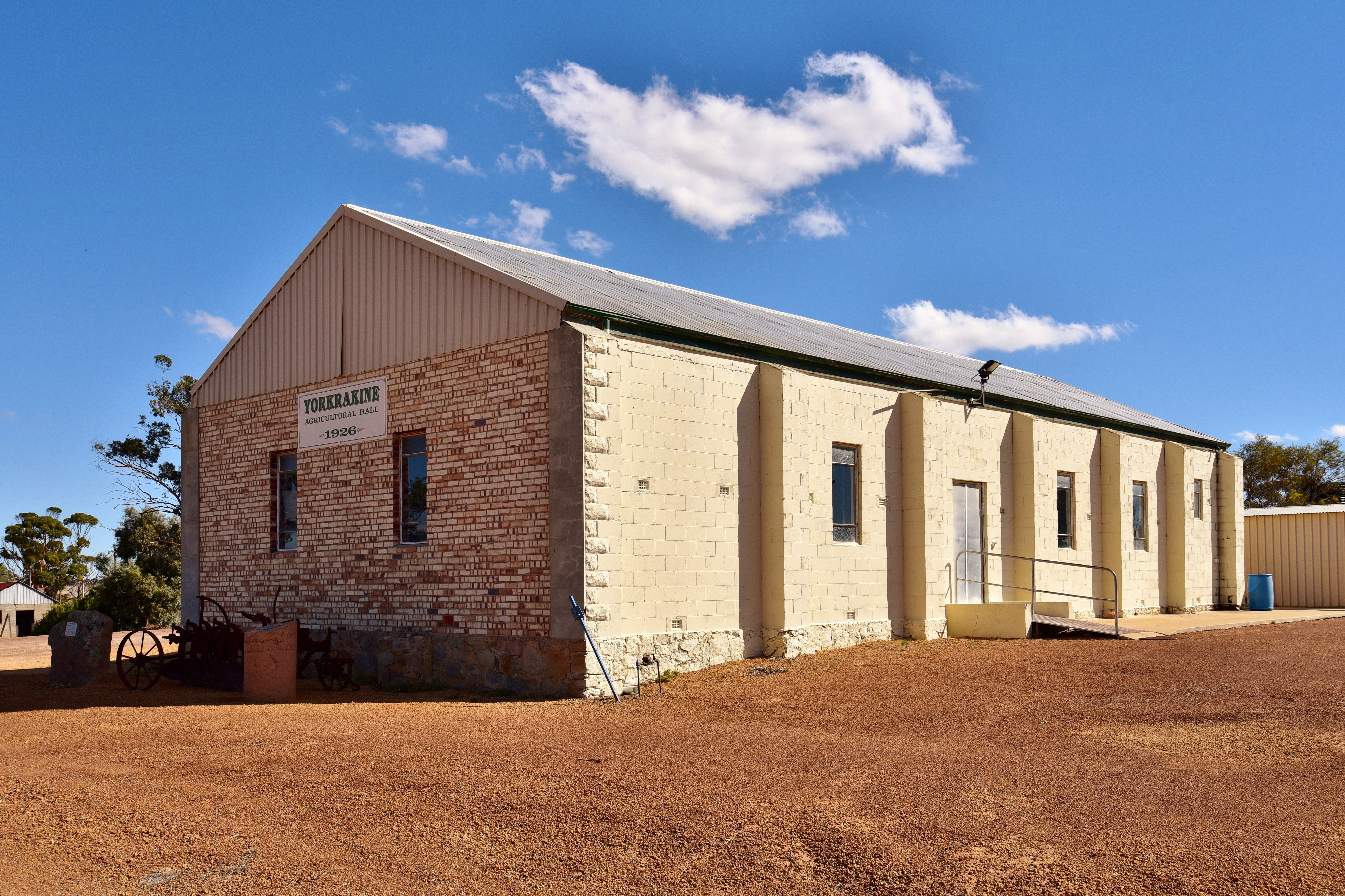 View of the Yorkrakine Agricultural Hall, Yorkrakine, Western Australia